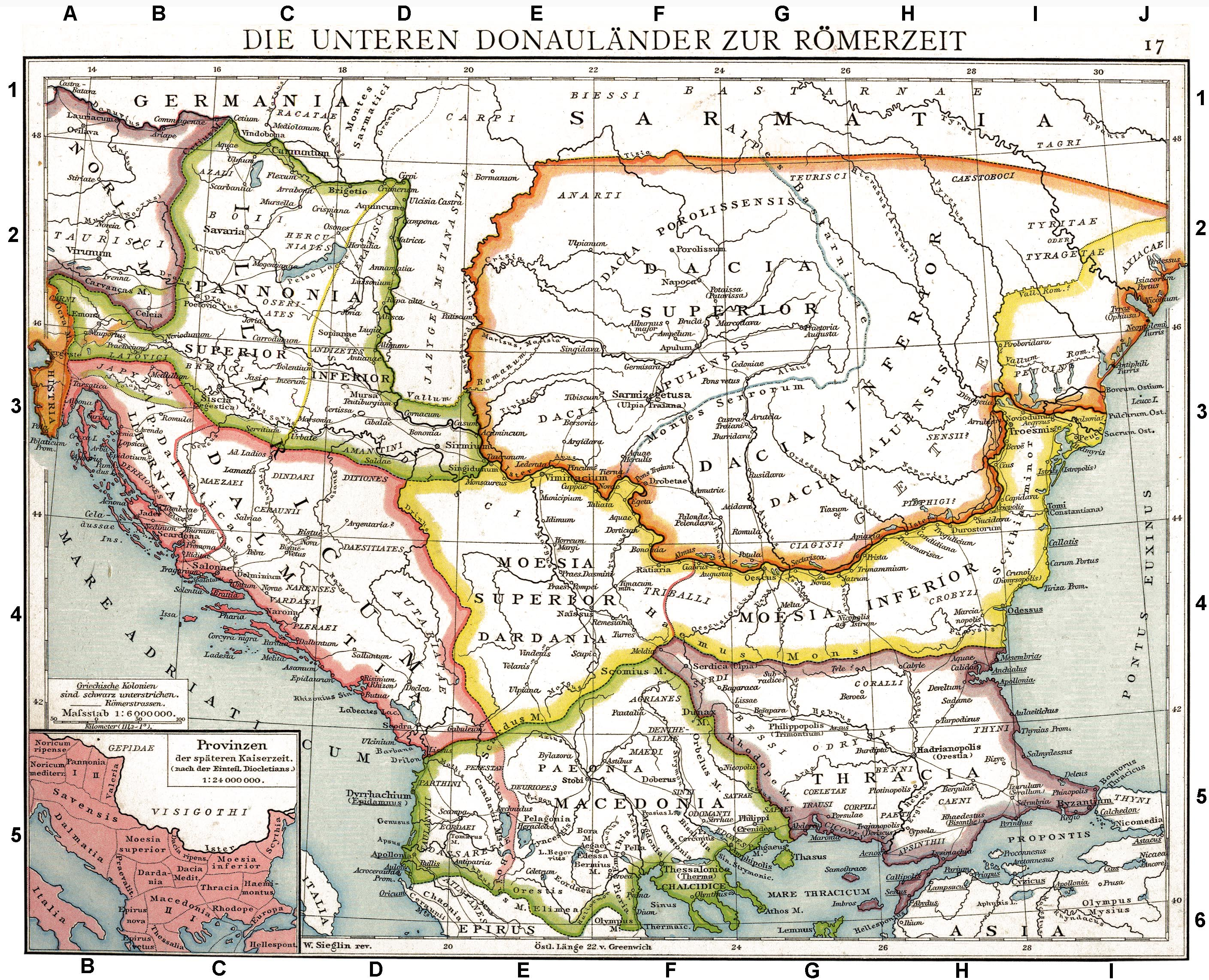 The Roman provinces of the Lower Danube. Old historical map from Droysens Historical Atlas, 1886